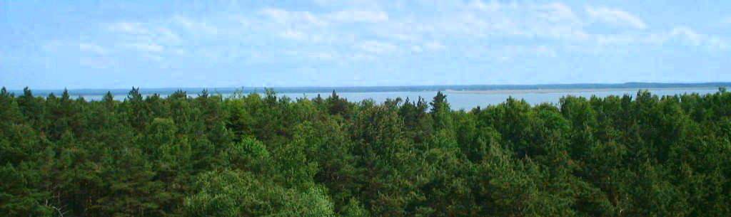 Poland, Lebsko Lake